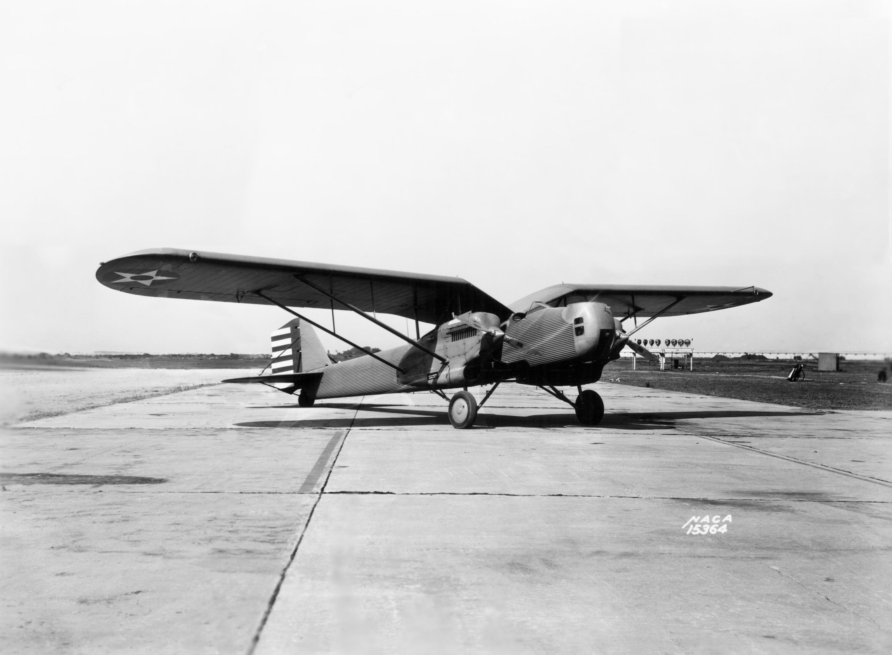 A U.S. Army Air Corps Douglas Y1B-7 at the National Advisory Committee for Aeronautics, Langley, Virginia (USA), 3 May 1938.